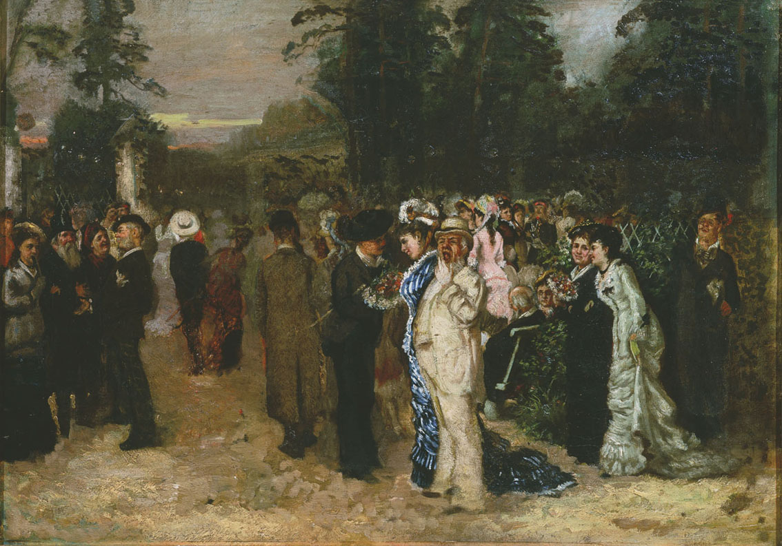 The Party in Sokolniki by Nikolay Chekhov